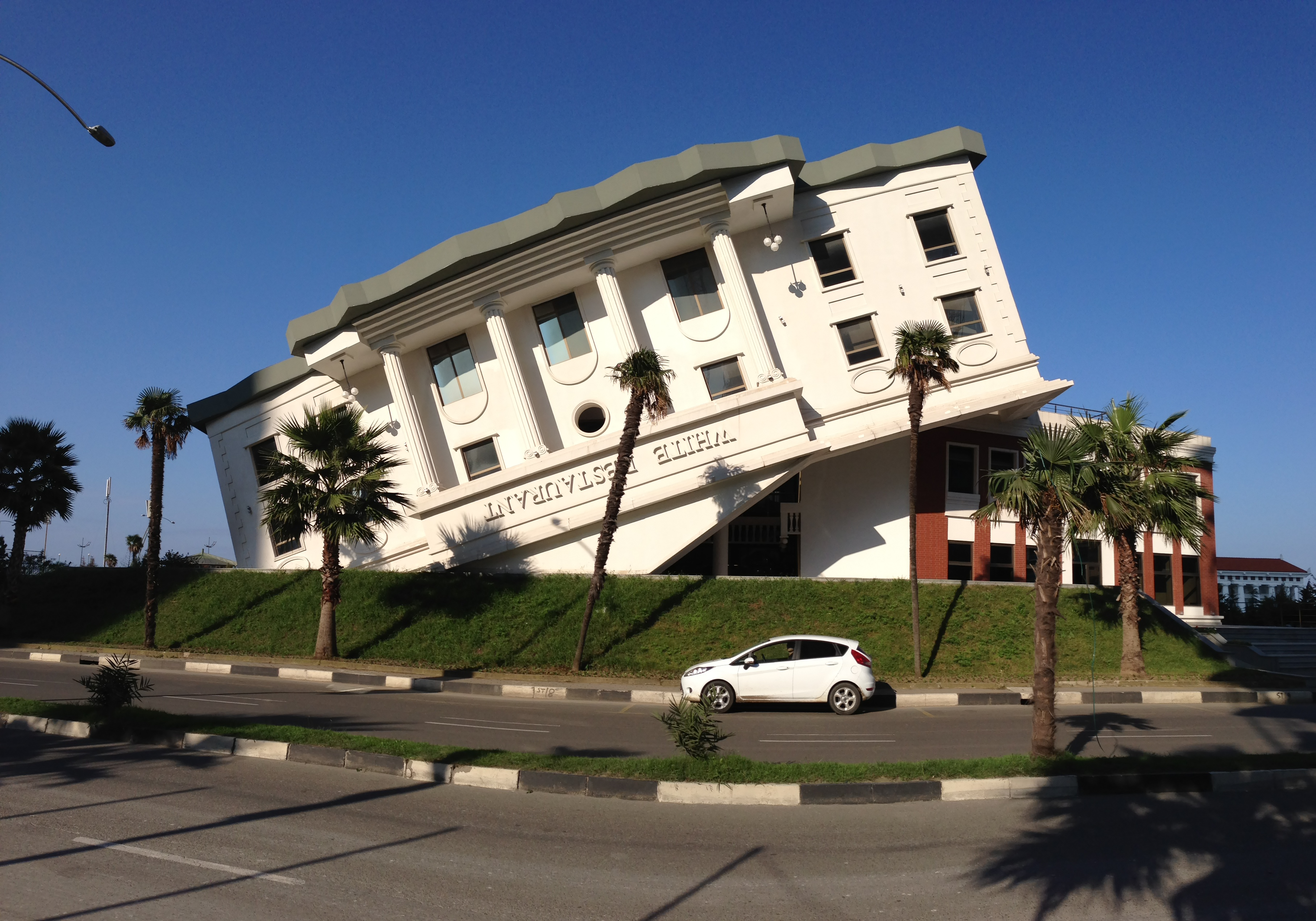 Building that looks like upside-down. White Restaurant, Batumi